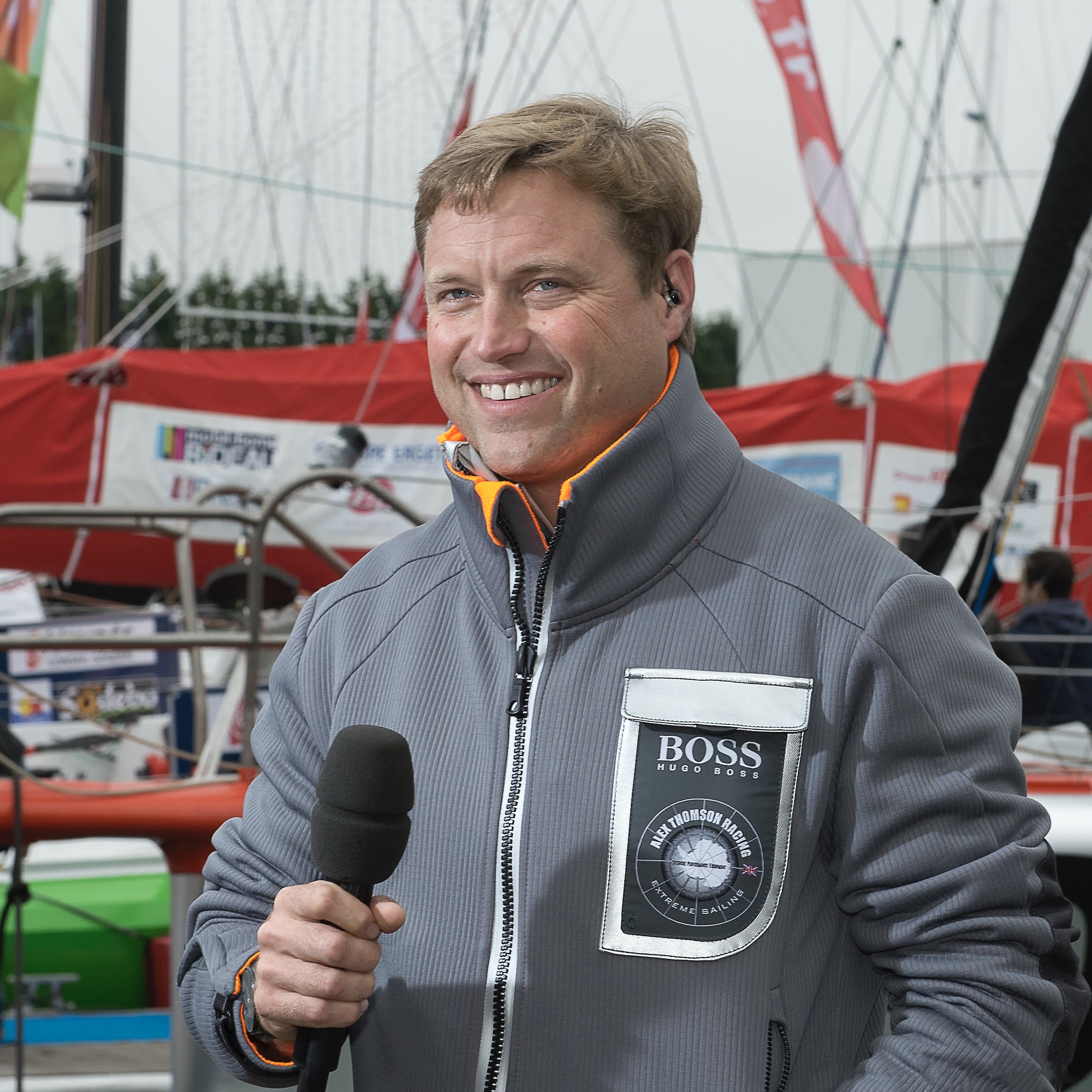 Alex Thomson before the start of the Vendée Globe 2012-2013 in Les Sables-d'Olonne